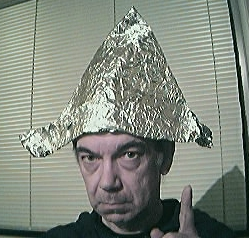 Tin foil hat